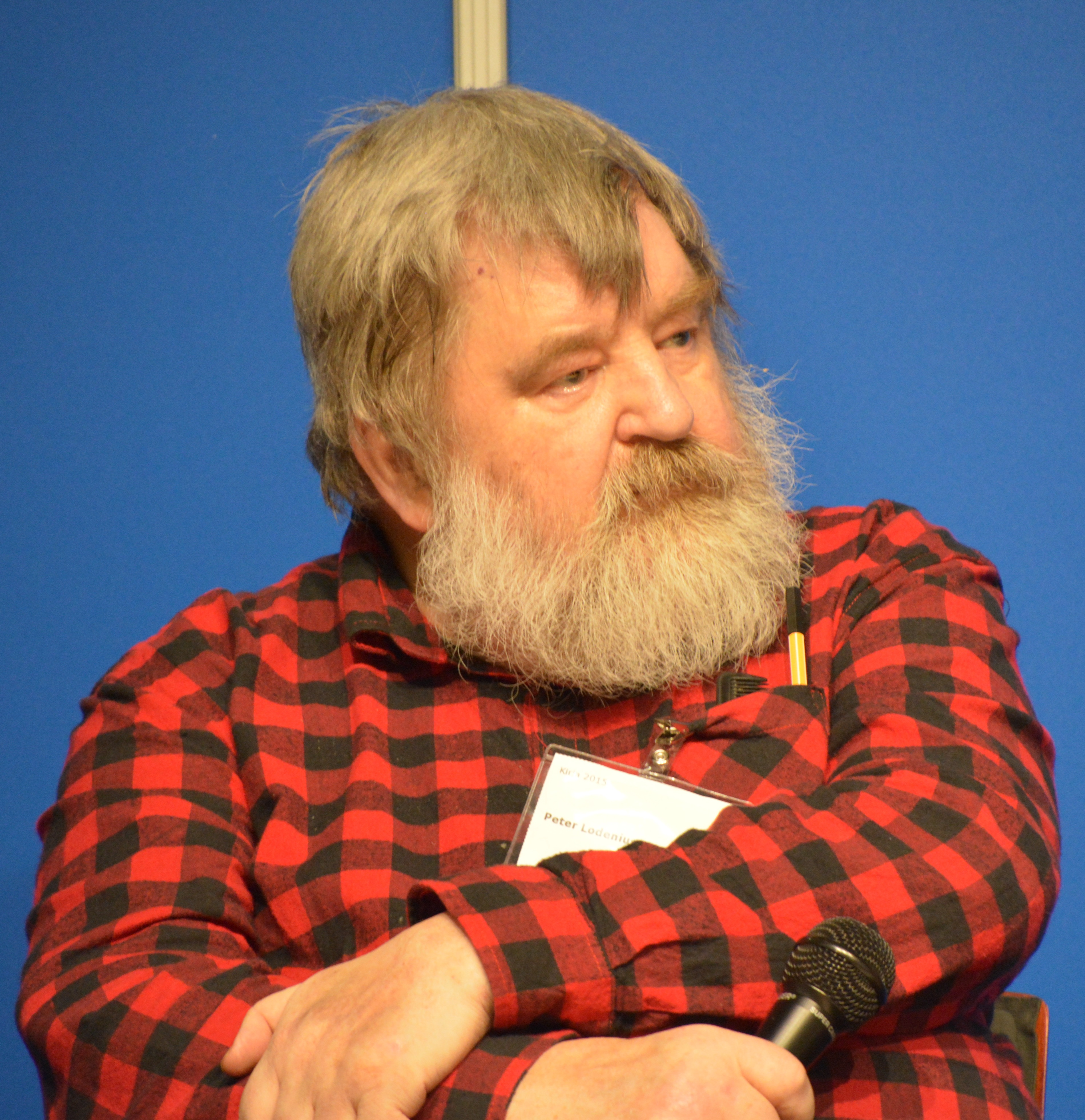 Peter Lodenius på Helsingfors bokmässa 2015